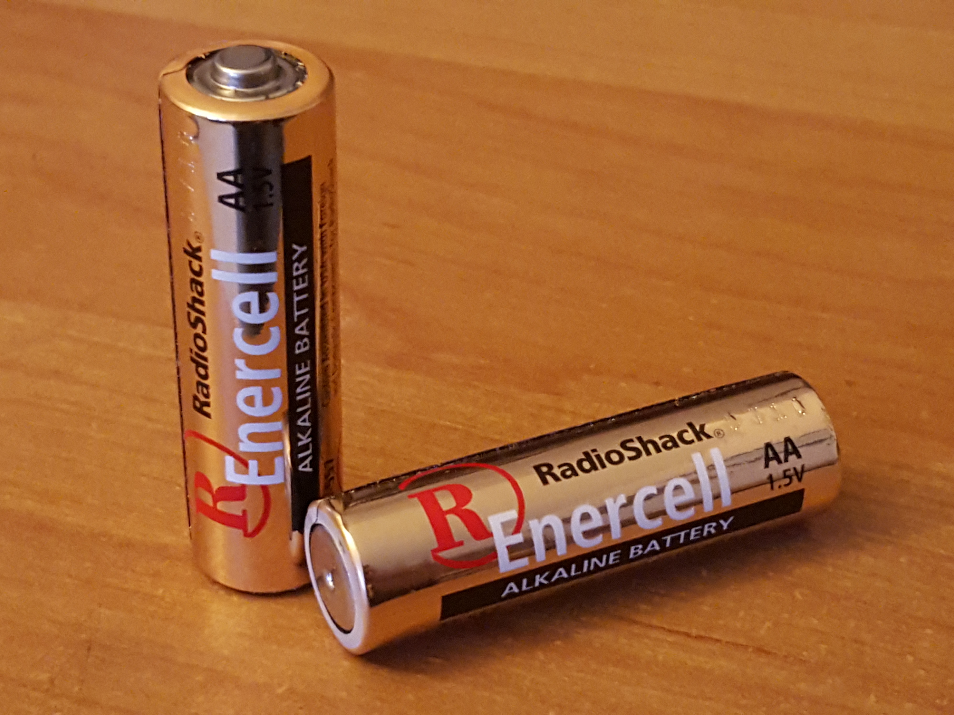 Two AA Enercell Alkaline Batteries.